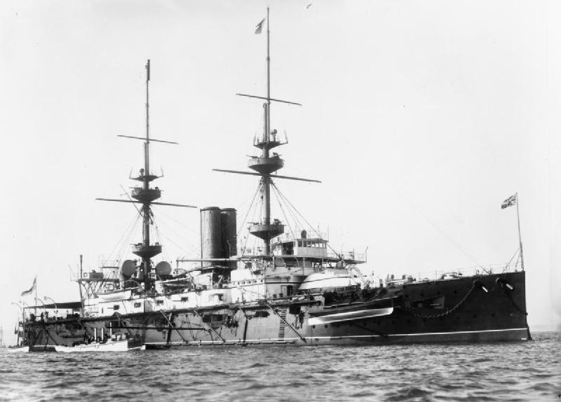 Majestic Class Battleships- Hms Hannibal HMS HANNIBAL at anchor at Spithead, 1898.